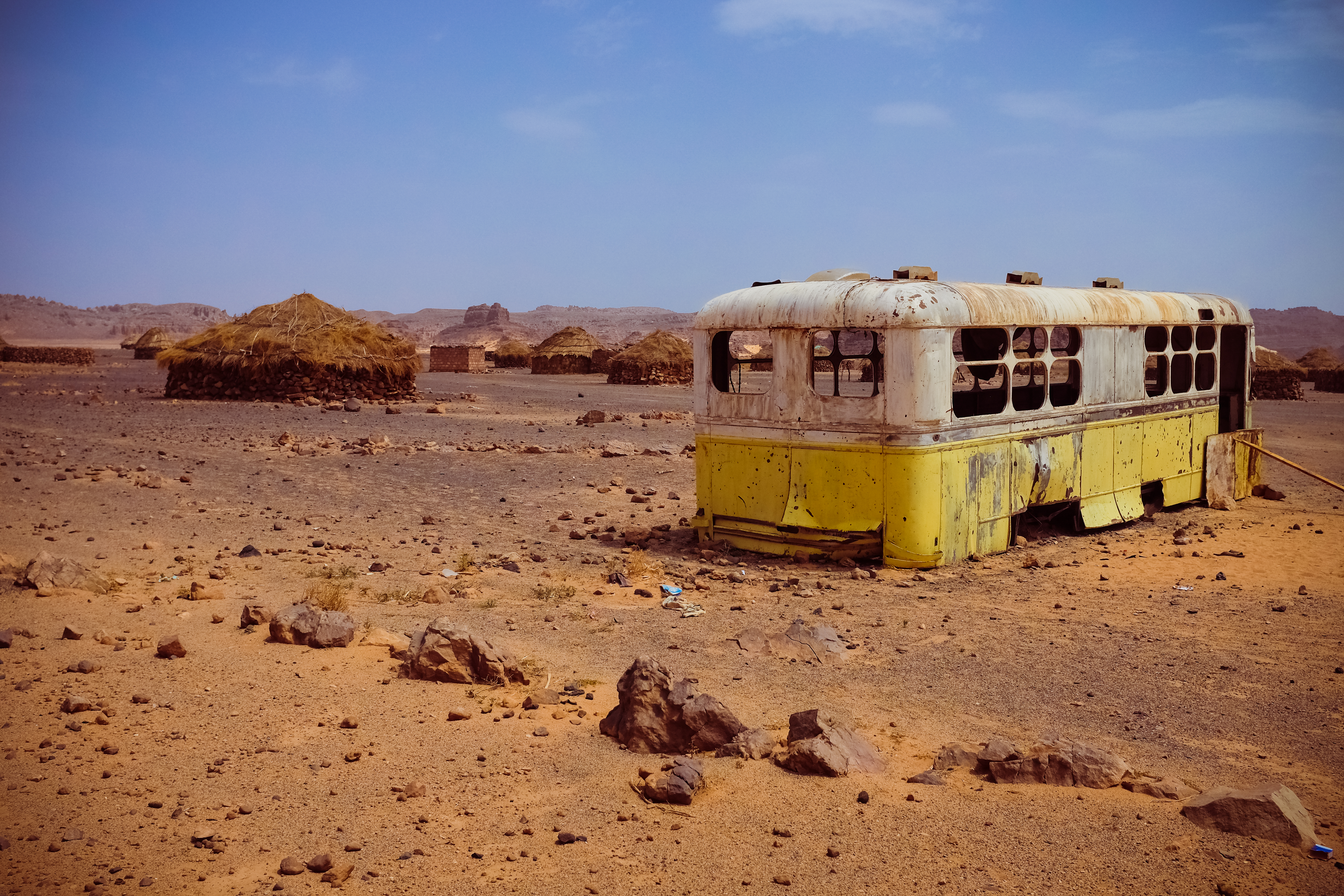 This is an image with the theme "Africa on the Move or Transport" from: Algeria